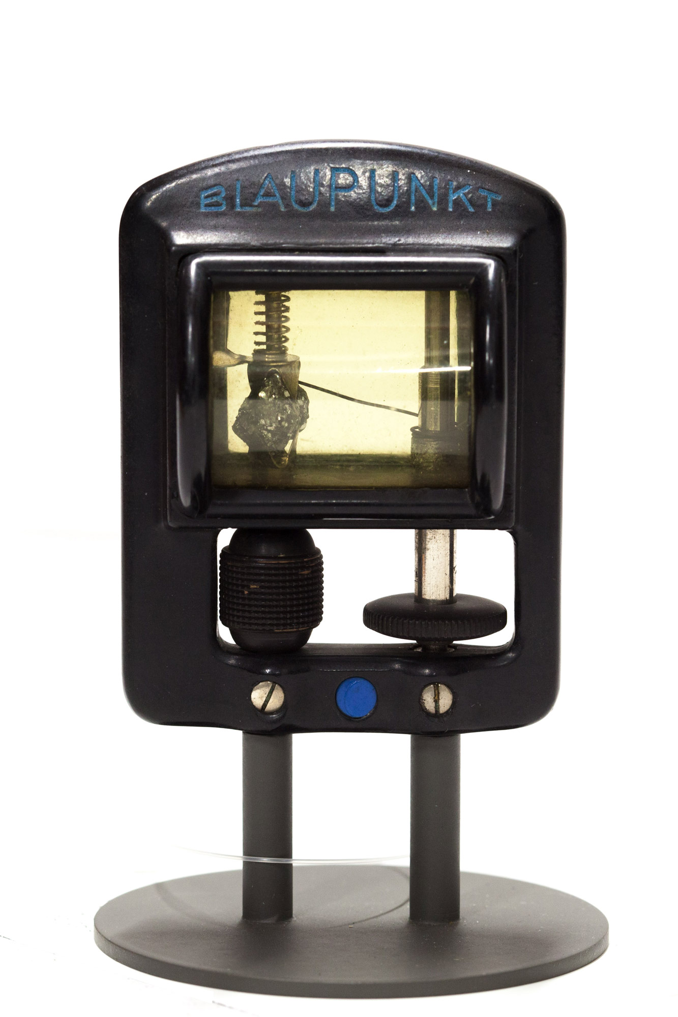 Plugin crystal detector used in a radio receiver made by Blaupunkt, Germany, ca. 1938. An early form of diode, it's function was to rectify the radio wave, extracting the audio (sound) modulation signal. This is a "carborundum detector", using a crystal of silicon carbide (then called carborundum) clamped between two spring-loaded contacts. Carborundum was used in crystal radios, and also in some vacuum tube radios between 1920 and 1950 because it was more sensitive than vacuum tube detectors. Museum für Kommunikation, Frankfurt, Germany. Photo by Maximilian Schönherr with help from Lioba Nägele.